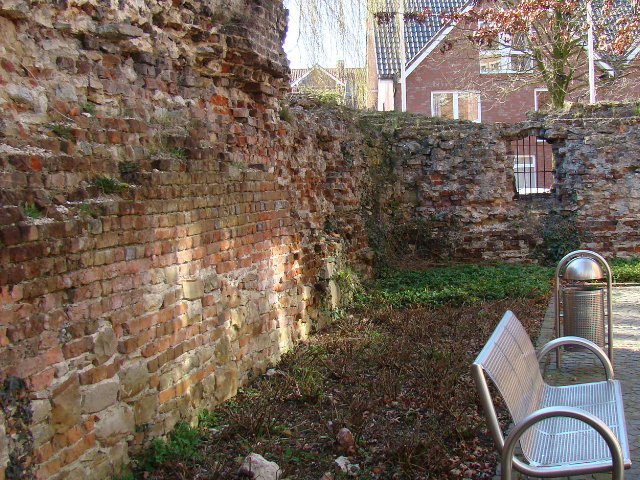 Ruïne of Vreden, Germany